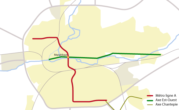 Metro and busway transport map of Rennes, prewiew for 2018